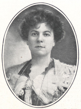 Portrait of the actress Jessie Millward, advertising her appearance at Colombine's theatres in New York, extracted from The London magazine, No. 55, Vol. X, p. 30. See the original file for fuller description. Shelfmark of the original item in the John Johnson Collection: Actors, Actresses and Entertainers 6 (108)